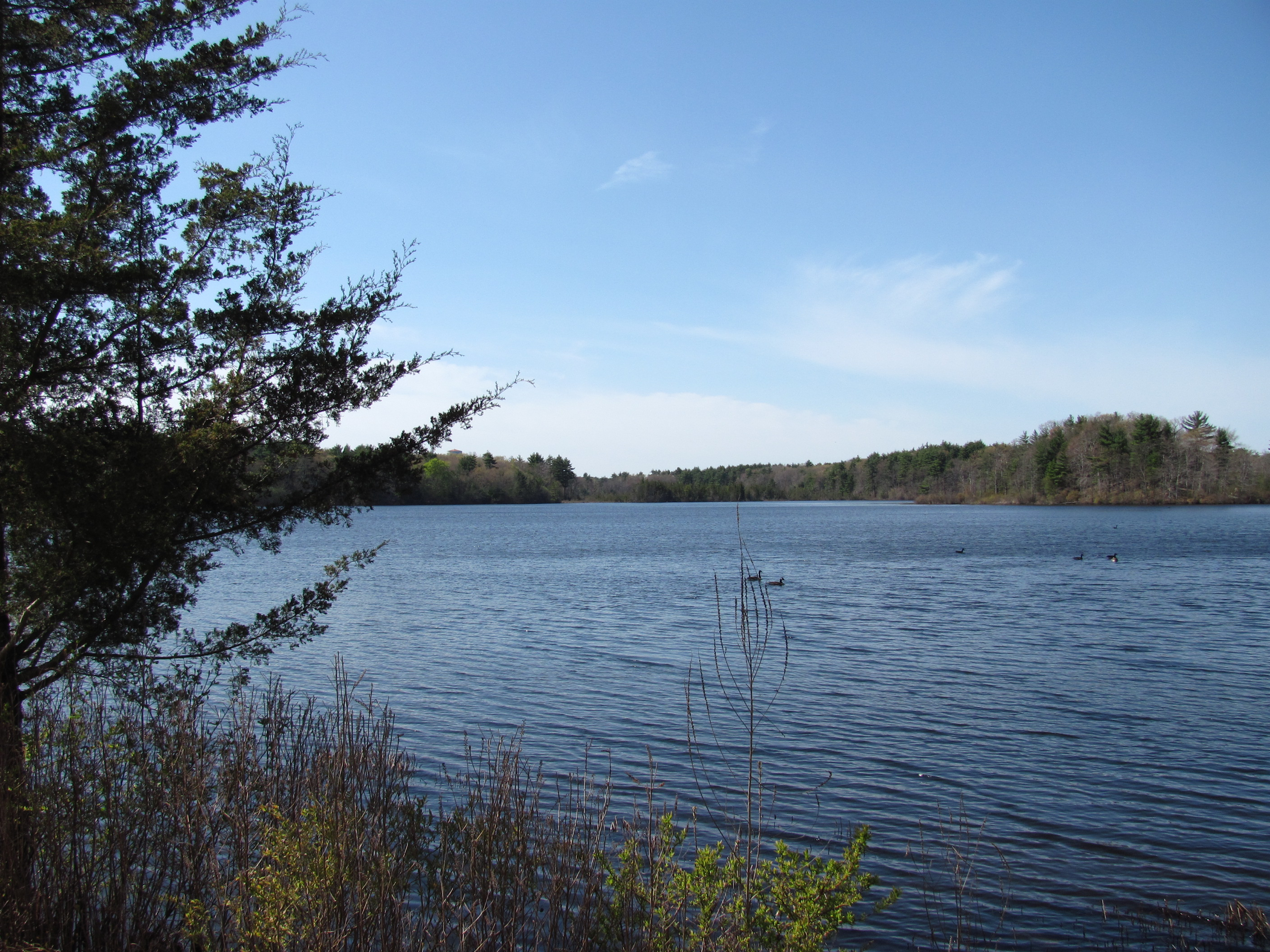 Watson Pond, North Taunton Massachusetts